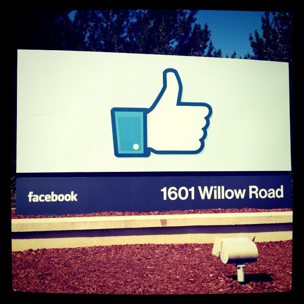 I offered Facebook $101B, but they turned me down...